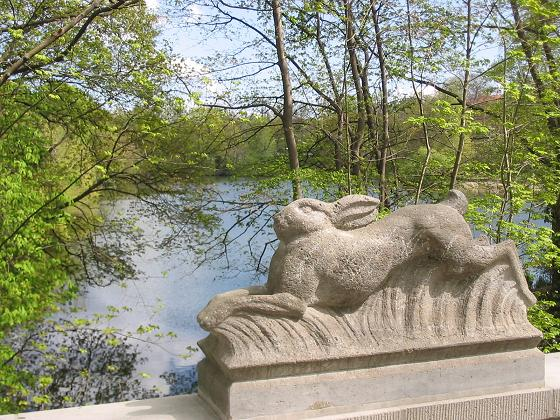 Berlin's lake Koenigssee with Hasensprungbrücke